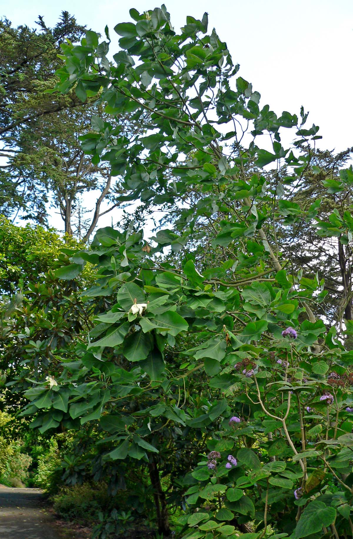 Photo of Magnolia dealbata at the San Francisco Botanical Garden